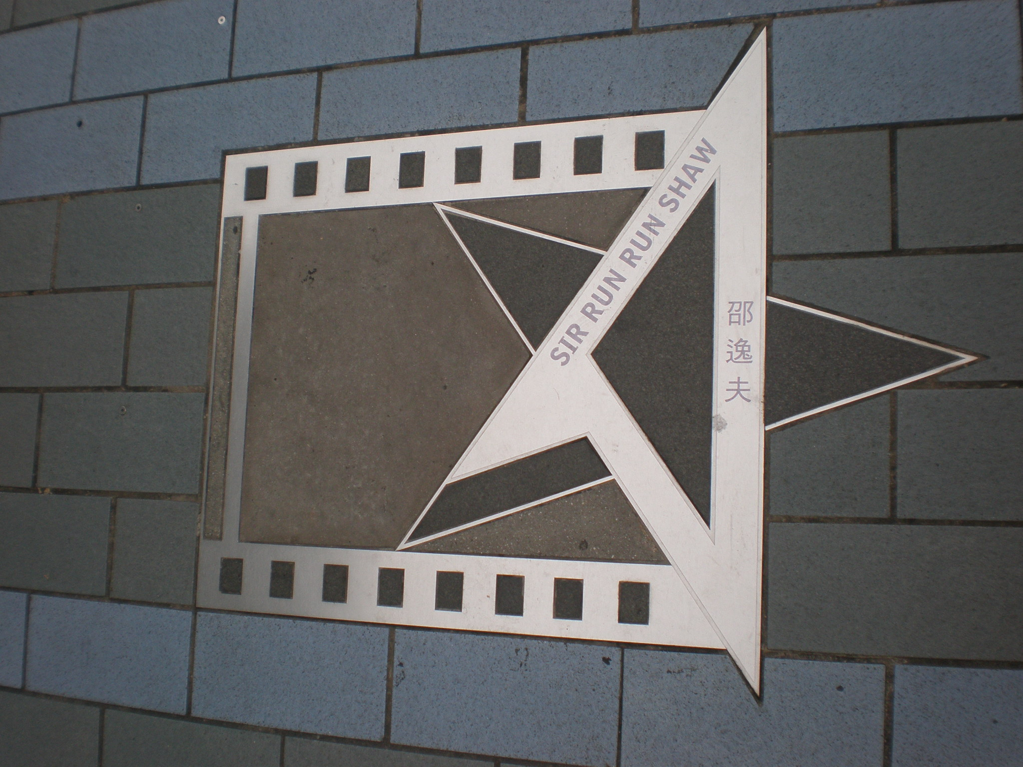 Star of Sir Run Run Shaw on the Avenue of Stars in Hong Kong.